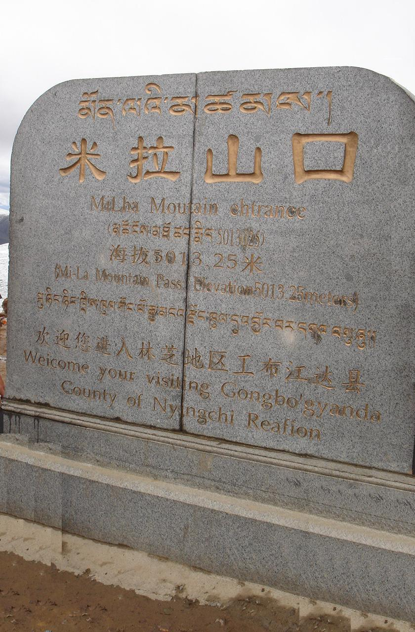 Milha Pass into Gongbo’gyanda County in Tibet, China